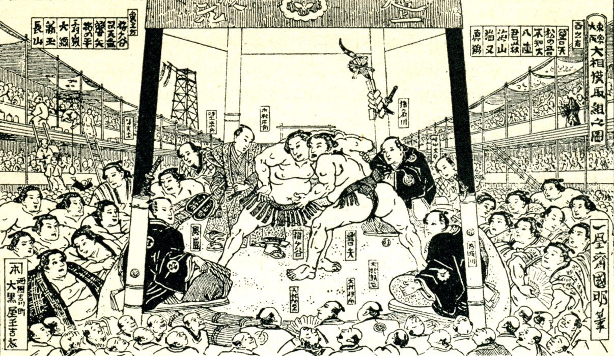 Japanese wrestlers. Image from the book "Japan And Japanese" (1902). Page 197